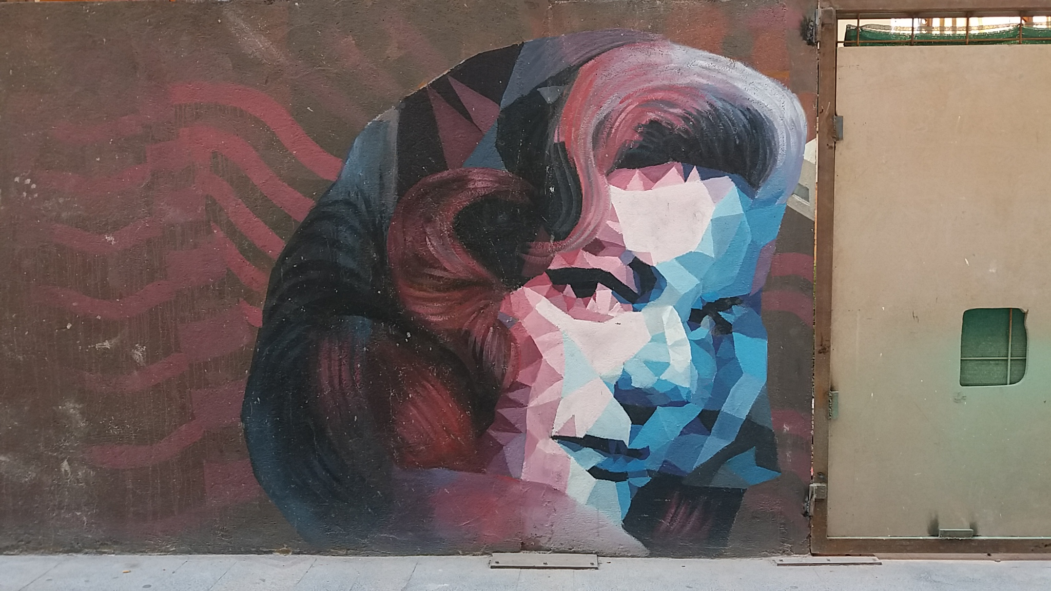 Graffiti of Lauren Bacall on the wall of a work, in the street Ferreries Velles.